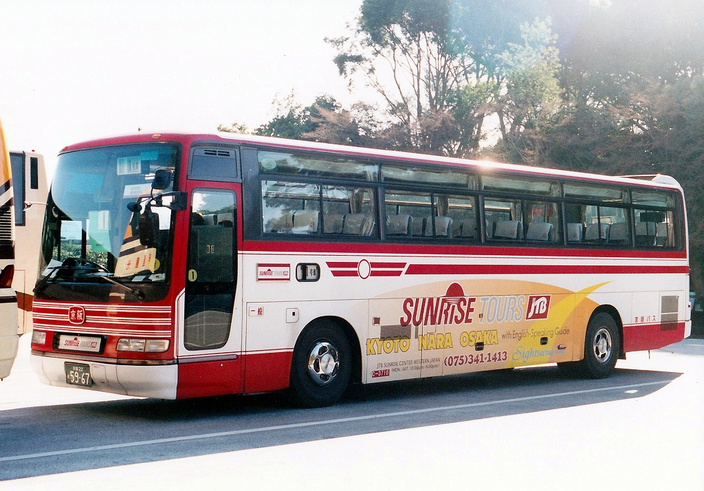 Keihan bus Hino S'ELEGA (U-RU2FSA) for Kyoto Sightseeing bus (JTB Sunrise Tours)